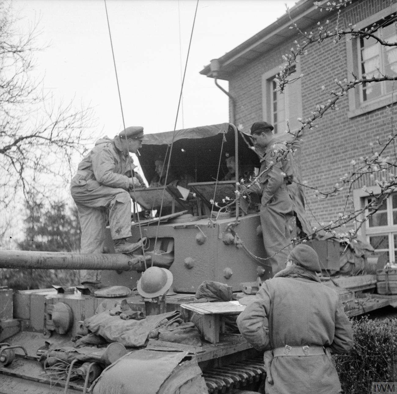 The British Army in North-west Europe 1944-45 The Cromwell command tank of Brigadier Wingfield, commanding 22nd Armoured Brigade, 7th Armoured Division, 31 March 1945.